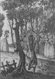 Marie Angélique Memmie LeBlanc, the Maid of Châlons